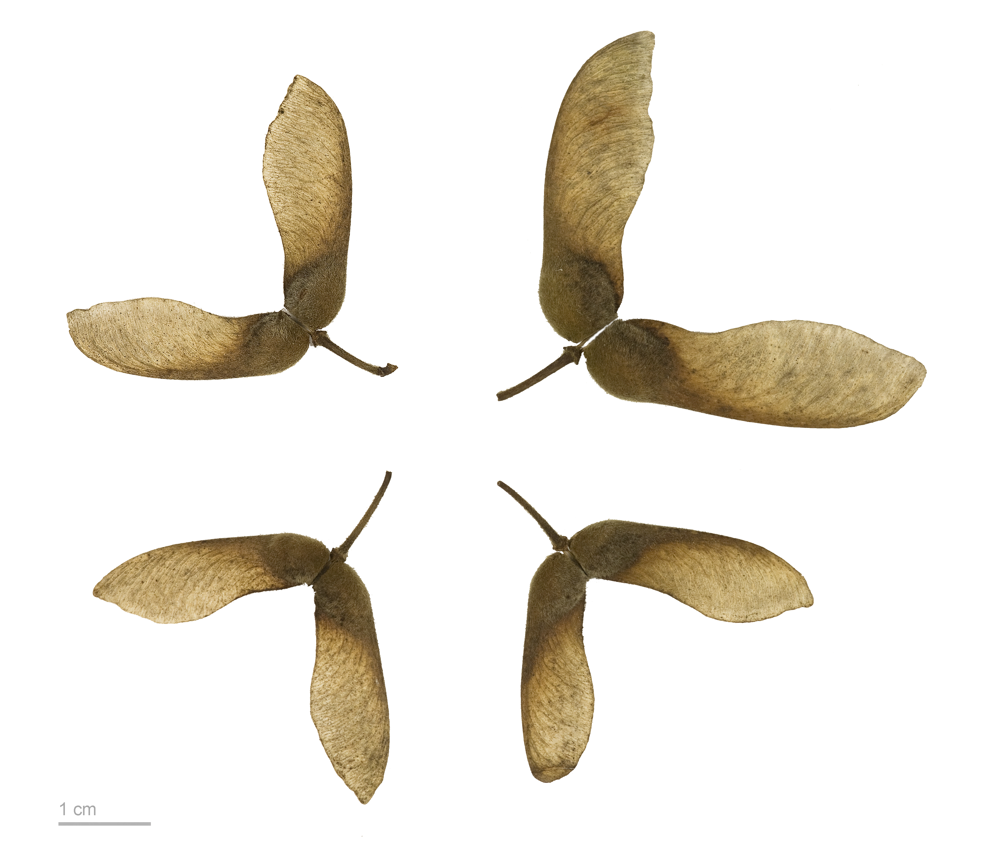 Paperbark Maple, fruits and seeds